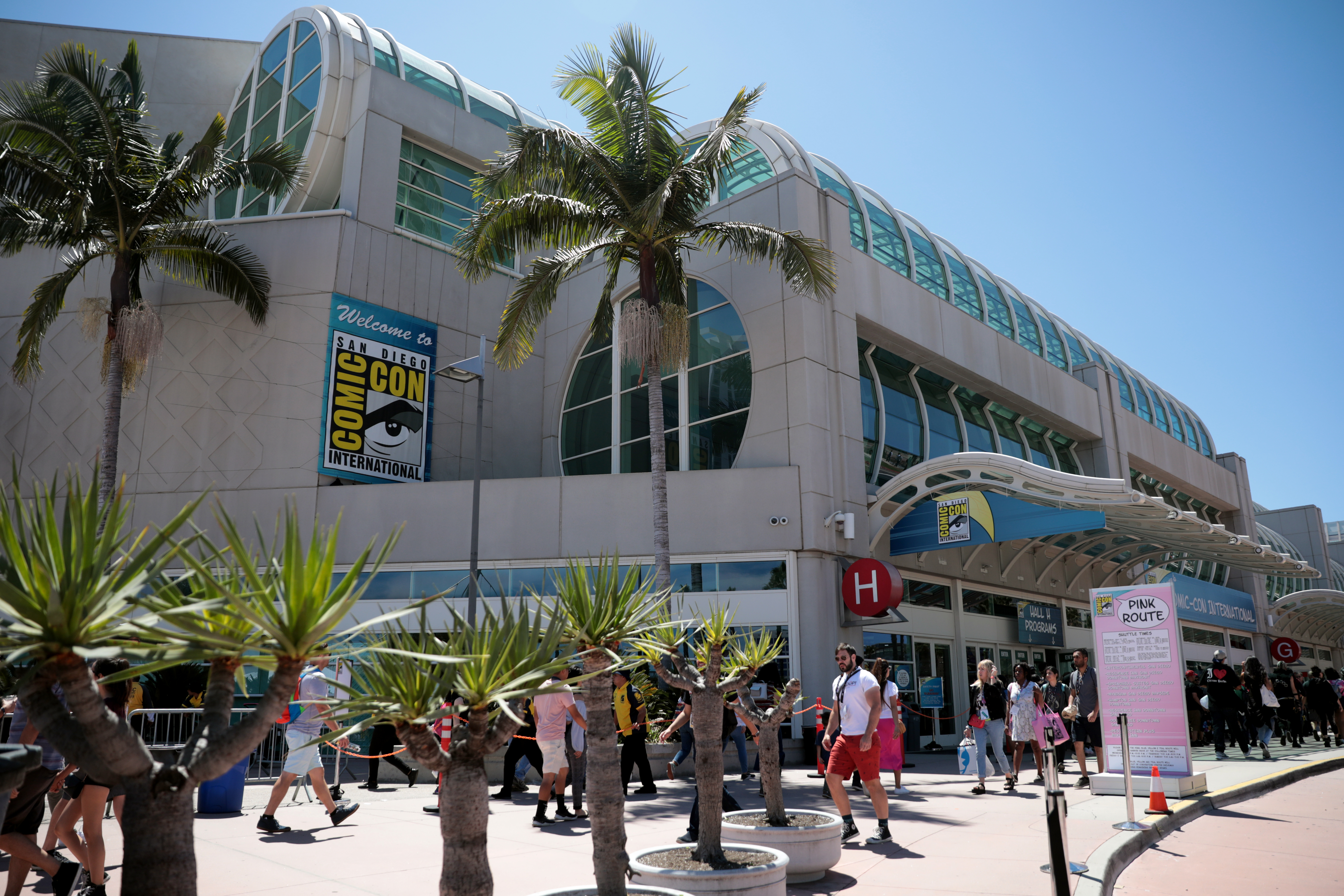 The 2019 San Diego Comic-Con International at the San Diego Convention Center in San Diego, California.